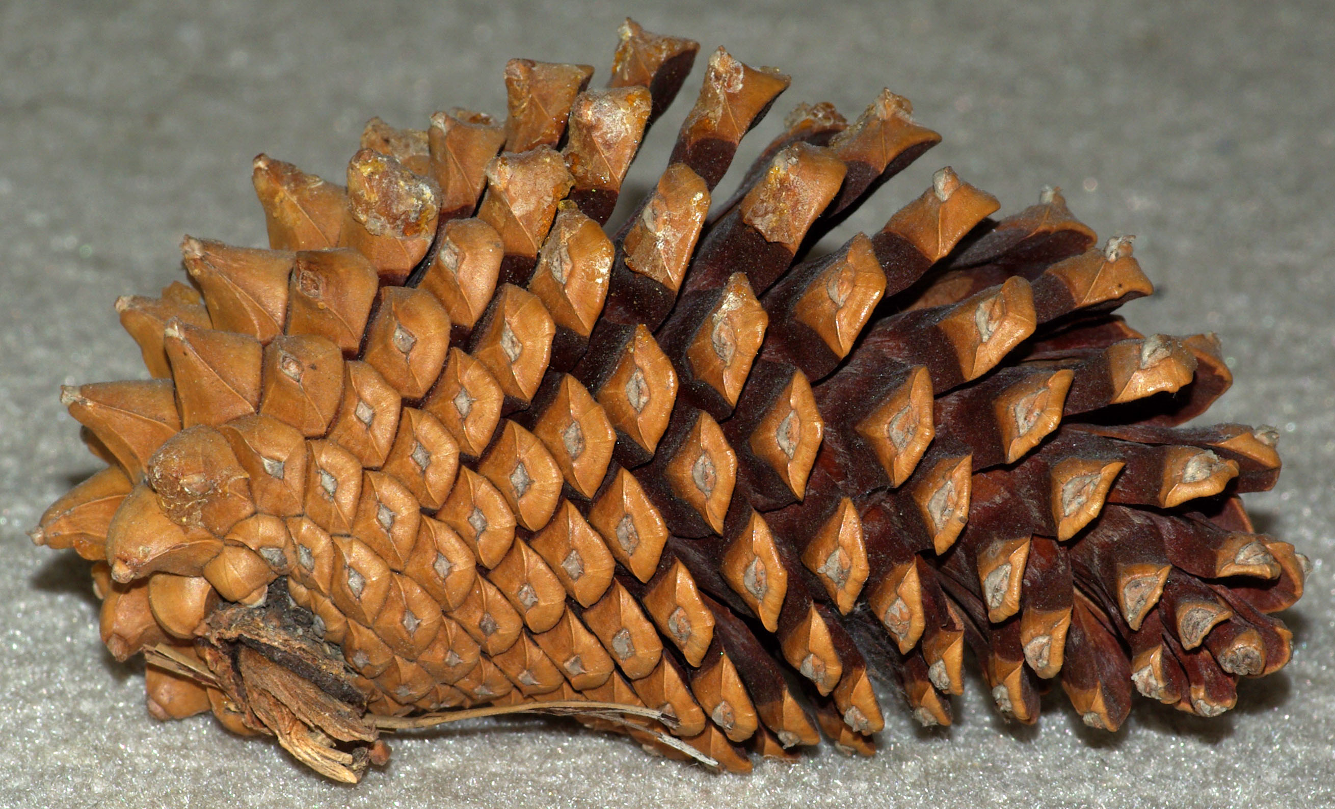 Close up of a Pinus attenuata cone (11.5 cm long).